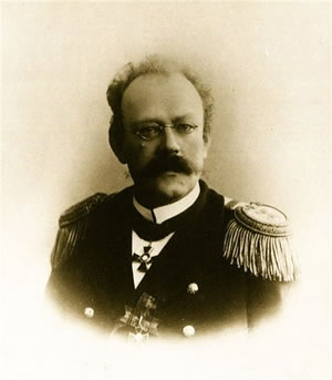 Myklukha Volodymyr Mykolayovych